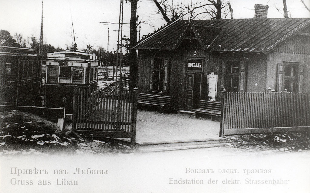 Tram station in Liepāja, Karosta